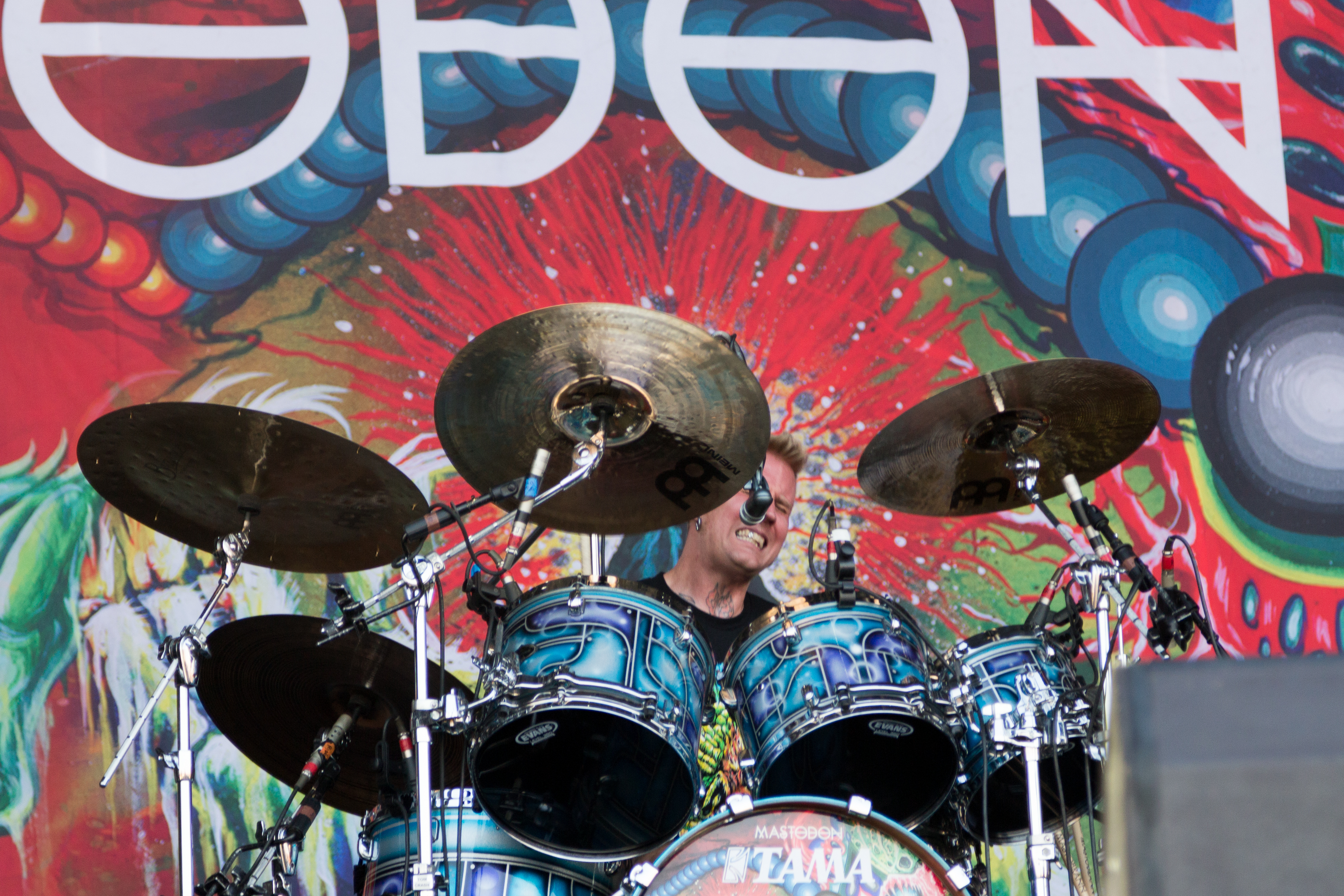 Brann Dailor from Mastodon at the Nova Rock 2015